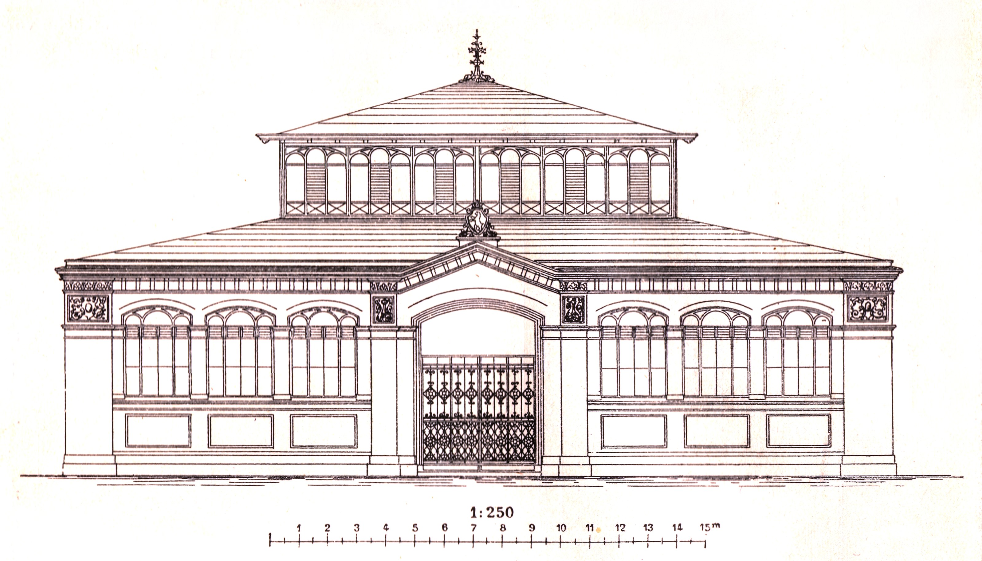 Berlin - market hall V, elevation